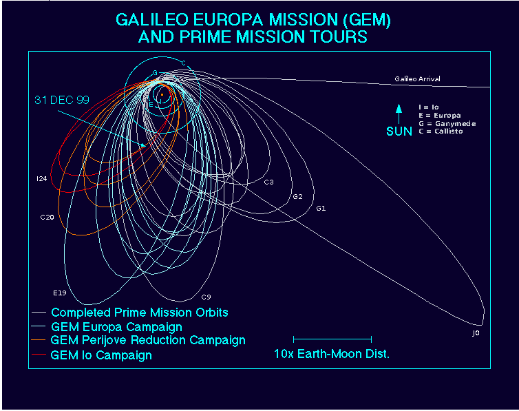 The Galileo spacecraft Europa Mission and Prime Mission Orbital Map.